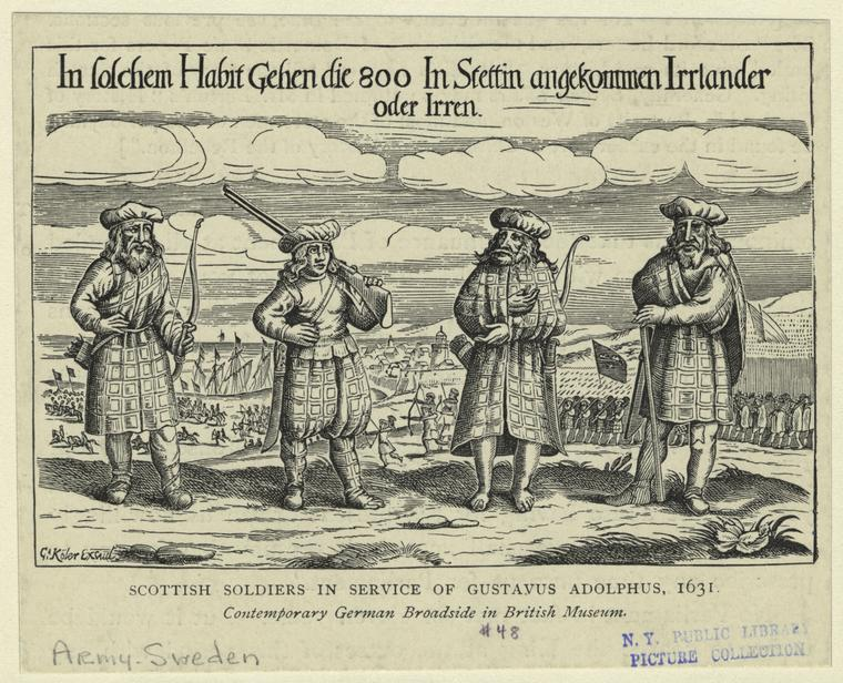 Broadside shows four "Irish" soldiers in kilts with battle scene in the background. 800 Scottish troops arrived to battle in Stettin on the side of Swedish troops in 1631.